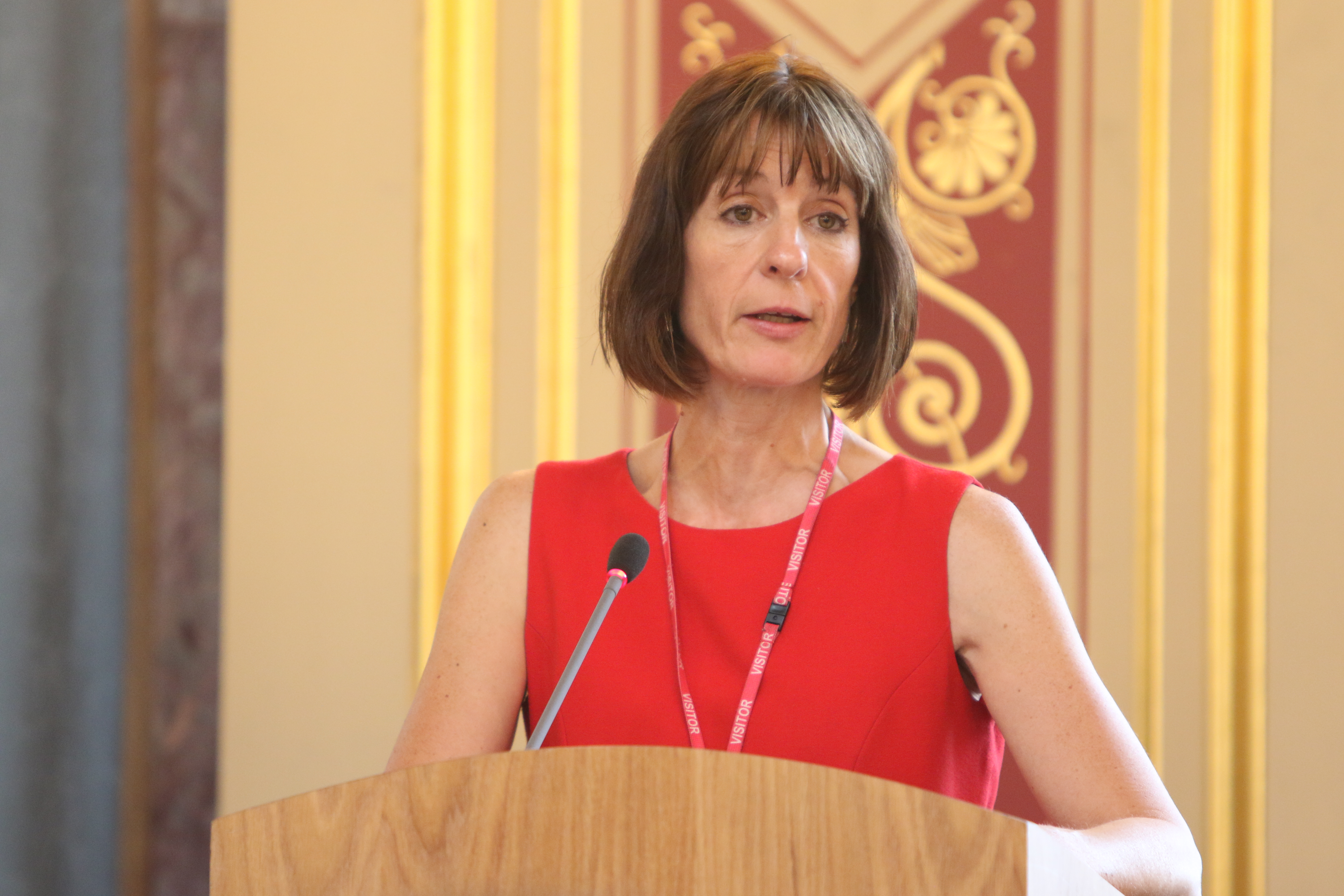 Debbie McGrath, Anti-Slavery International speaking at the Human Rights and Democracy Report 2016 event in London, 24 July 2017